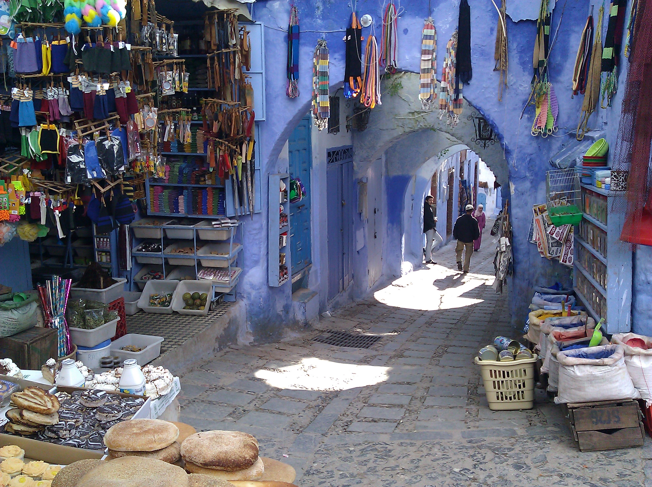 Chefchaouen, Morocco